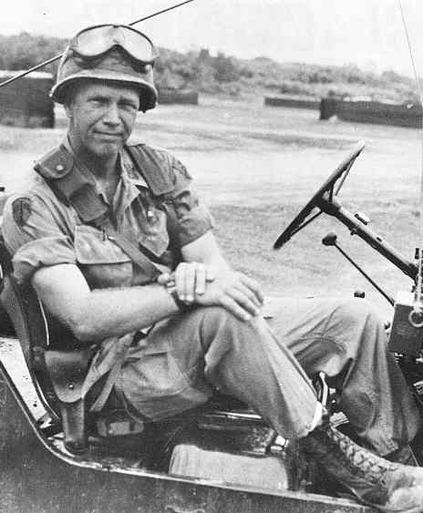 George S. Patton IV during one of his three combat tours in Vietnam